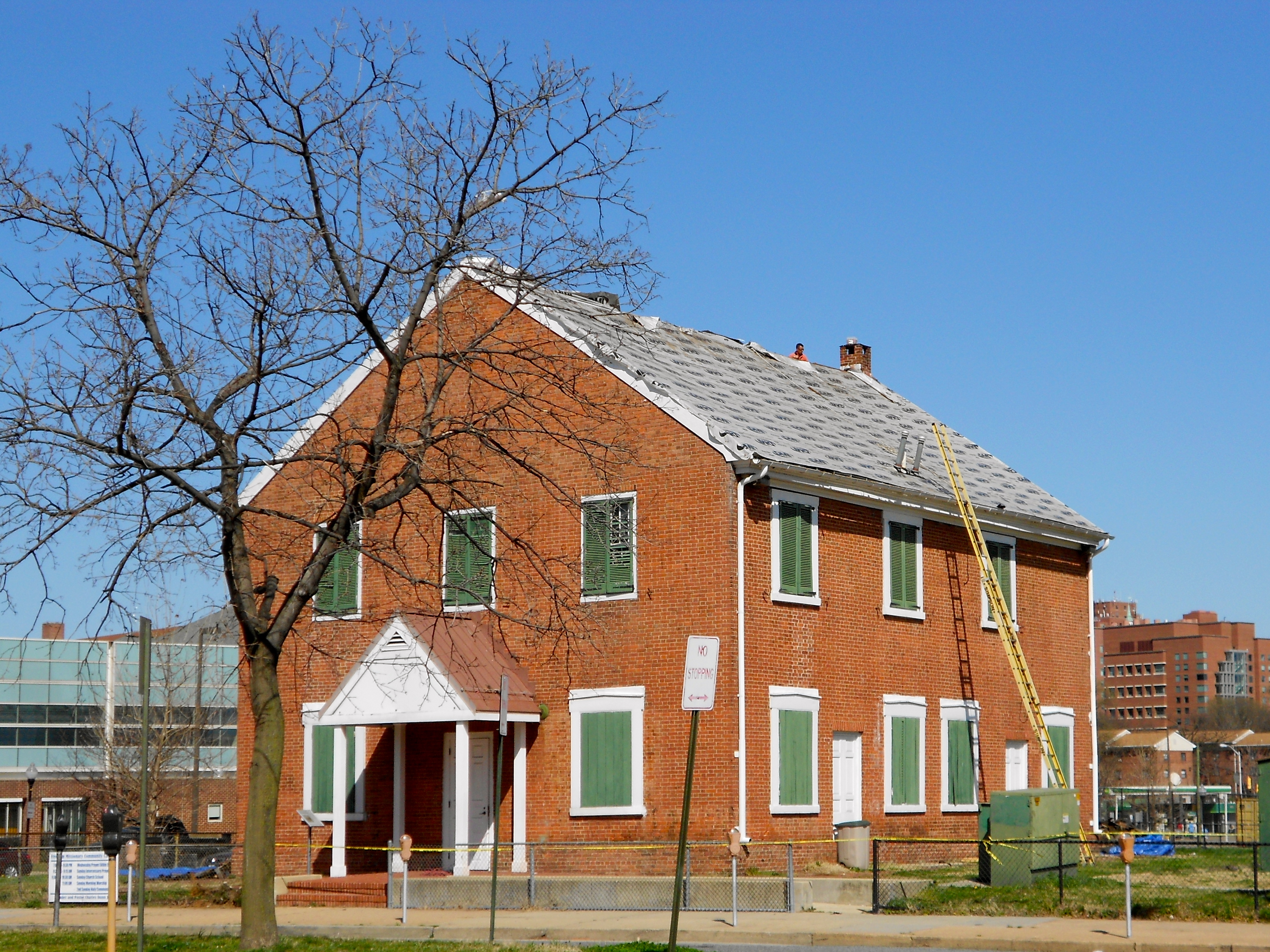 Old Town Friends' Meetinghouse on the NRHP since March 30, 1973 At. 1201 E. Fayette St. in southeast Baltimore, Maryland. Completed by 1781.